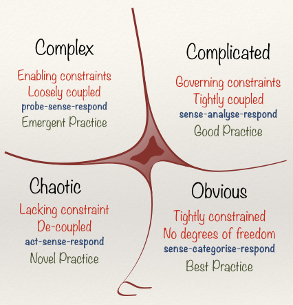 Modification of Simple domain to 'Obvious', additional descriptive material for each domain